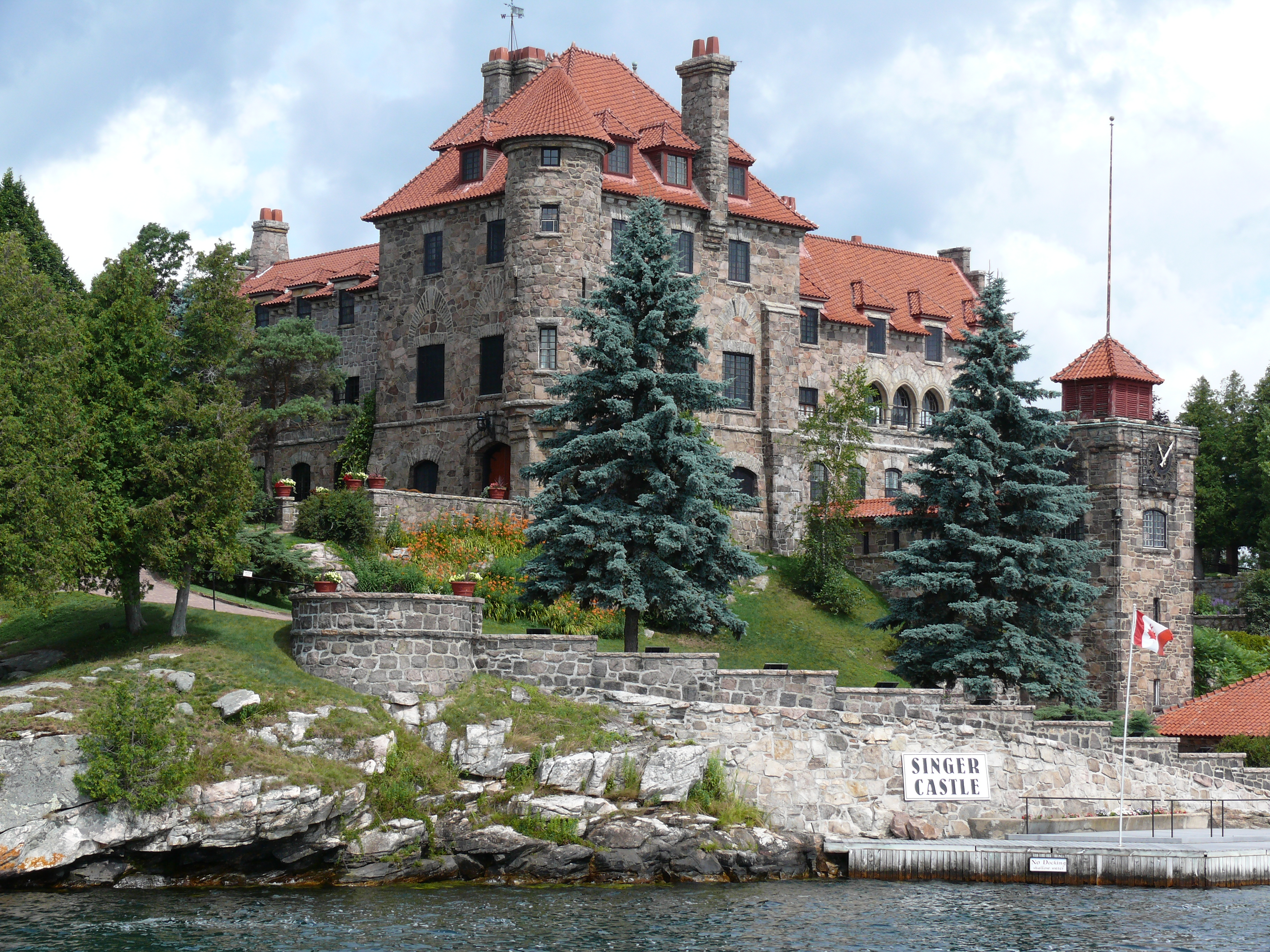 Dark Island, a prominent feature of the St. Lawrence Seaway, is located in the lower (eastern) Thousand Islands region, near Chippewa Bay. Dark Island Castle was recently renamed "Singer Castle", because it was built for Frederick Gilbert Bourne, president of the Singer Manufacturing Company , producer of the Singer Sewing Machine.